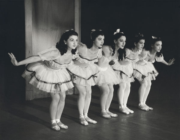 Scene from the third act of the ballet Coppélia as performed by the National Ballet of Canada at the Varsity Arena, Toronto, ca. 1952.